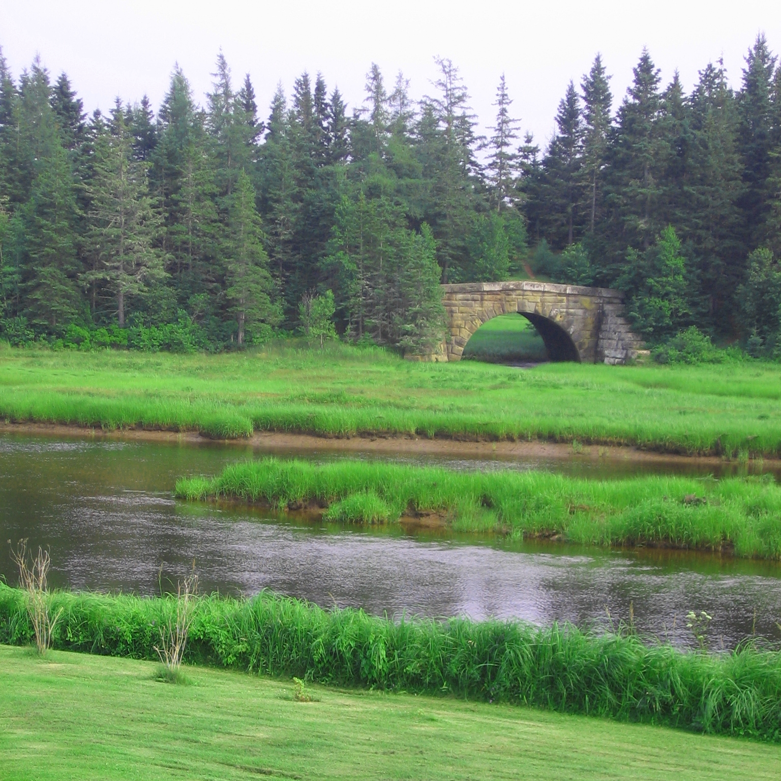 Portion of tidnish River near old Chignecto Ship Railway bridge